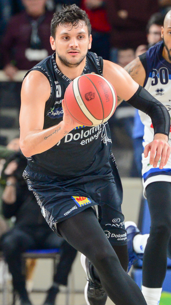 Dolomiti Energia Trentino - Germani Basket Brescia